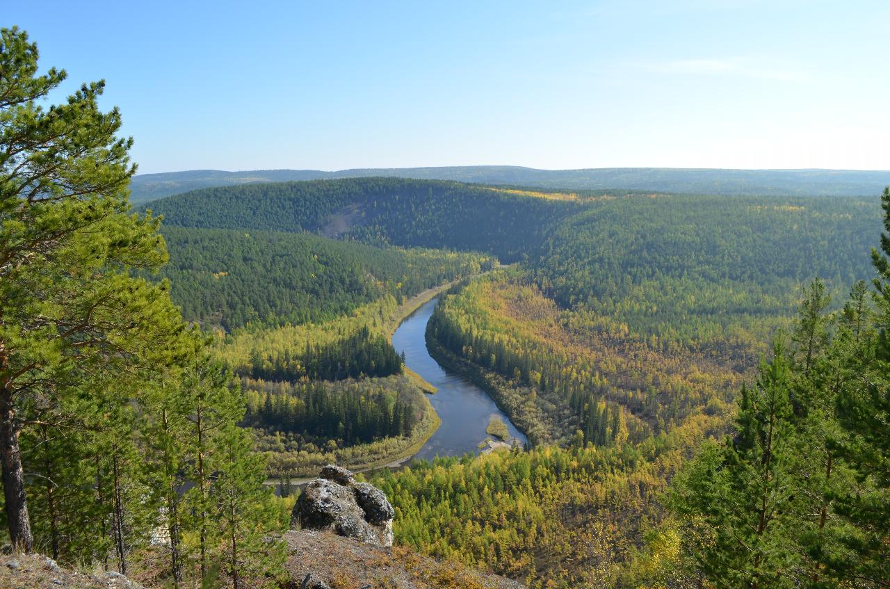 This photos are made during cruise Yakutsk — Lеnskiye Shchyoki, Lena Cheeks — Yakutsk (with arrival in Mirny), 05.09−17.09.2016